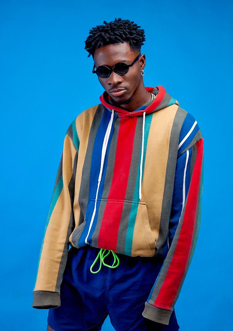 Incredible Zigi in a pose before a peformance